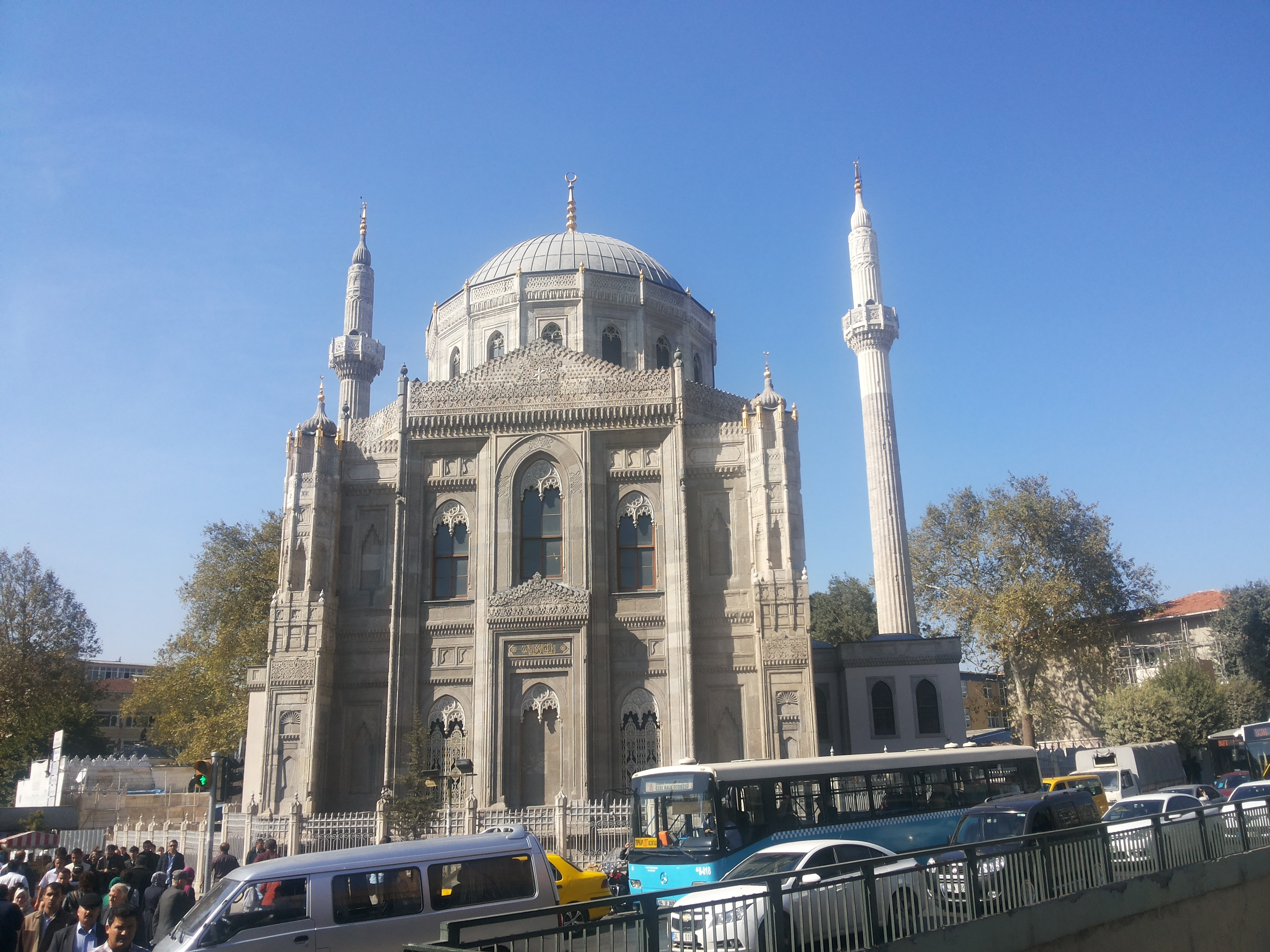 One of Istanbul's Mosques, Turkey